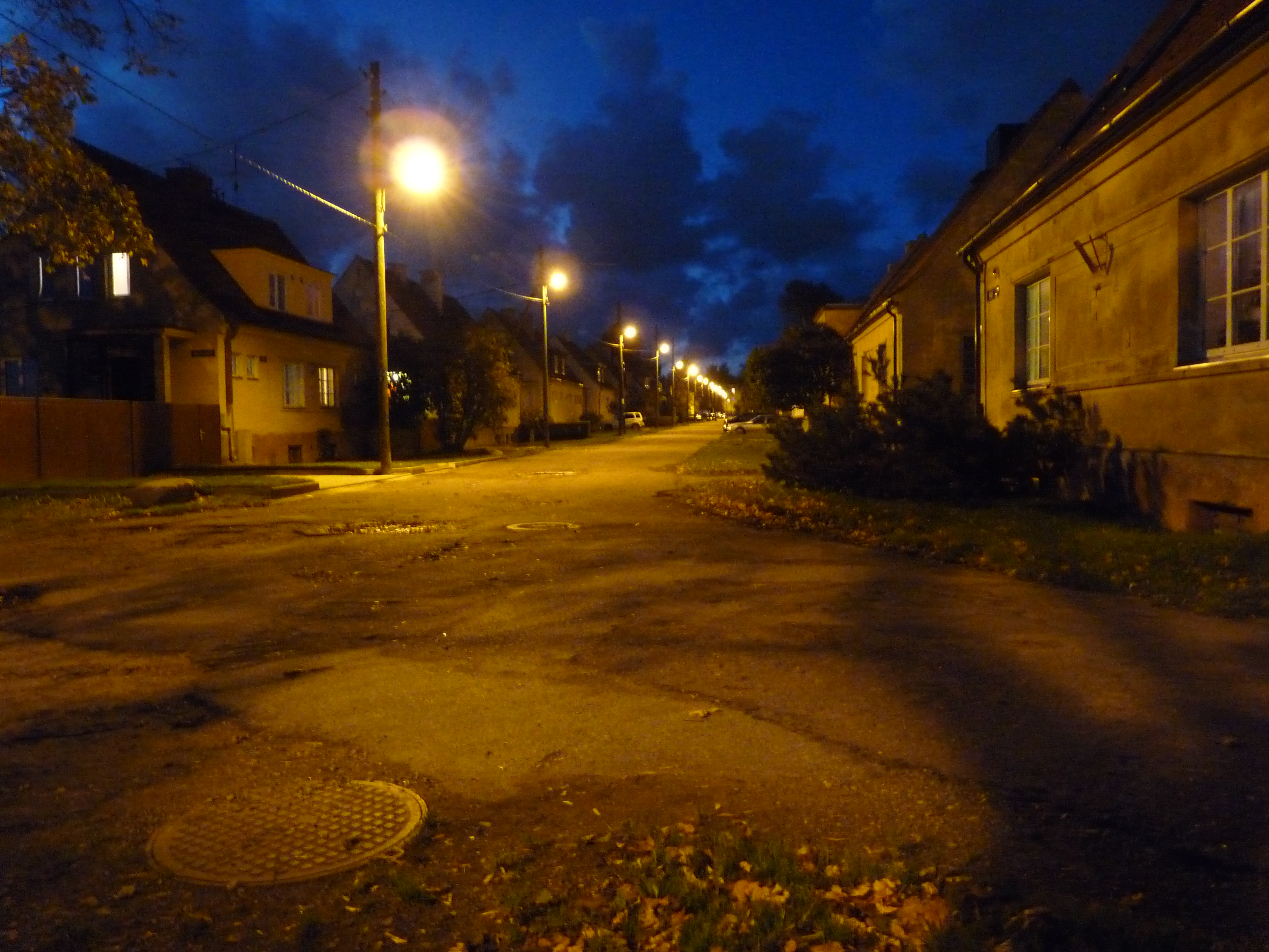 Sirbi street in Tallinn, Estonia.